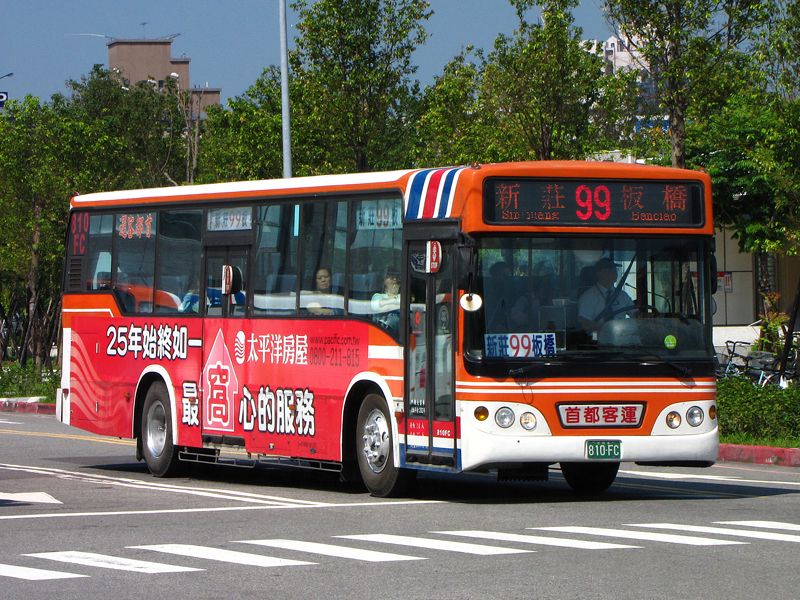 首都客運810-FC